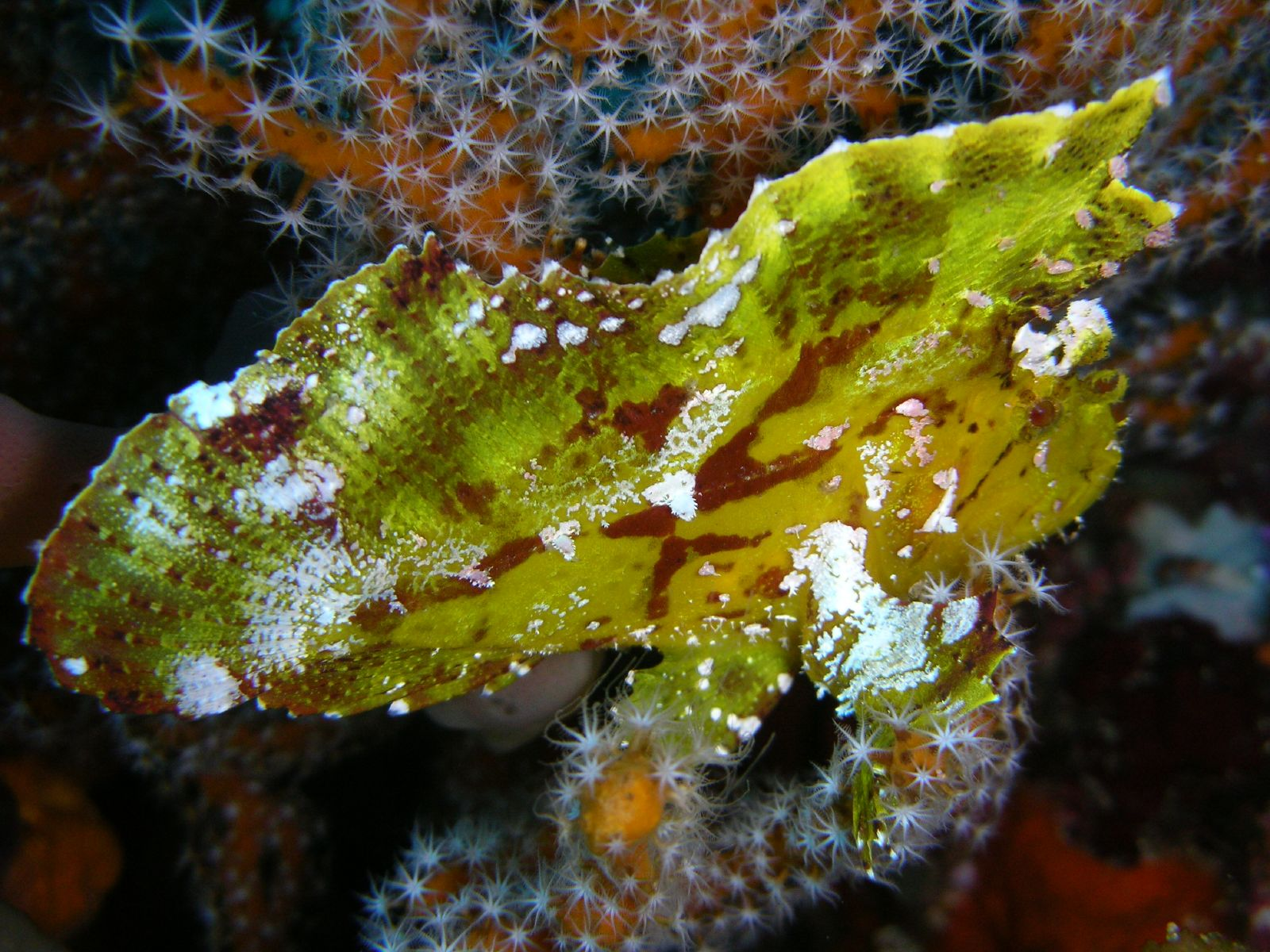 Leaf Scorpionfish (Taenianotus triacanthus)